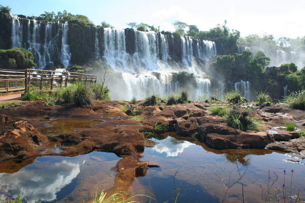 A Waterfall in Puerto Iguazú – Misiones – Argentina.